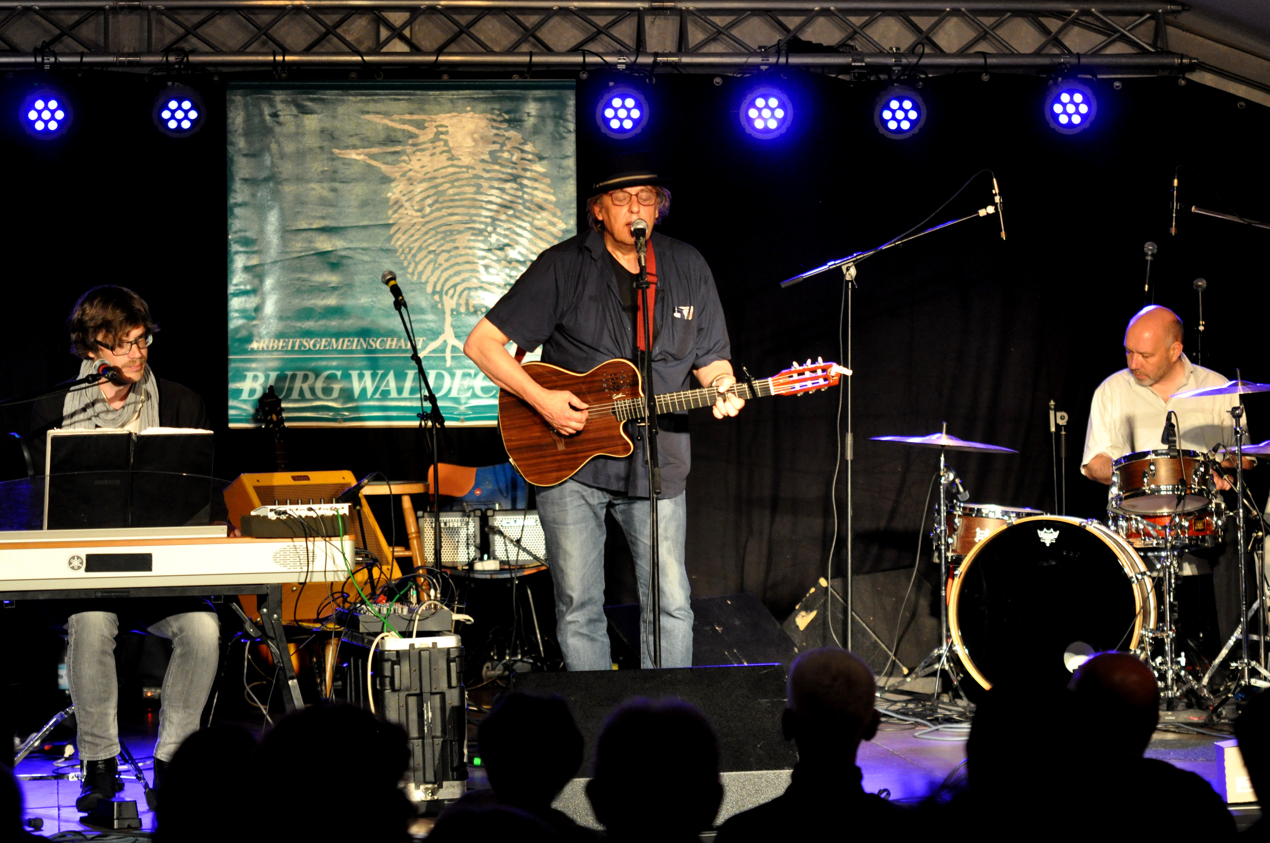 Danny Dziuk and Band (DEU) appearance at the 2017 song festival at Burg Waldeck Castle, Rhineland-Palatinate, Germany Festivalsommer This photo was created with the support of donations to Wikimedia Deutschland in the context of the CPB project "Festival Summer".